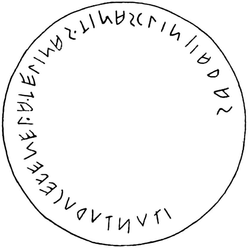 This gave Venel Atelinas to the son of Tinia.